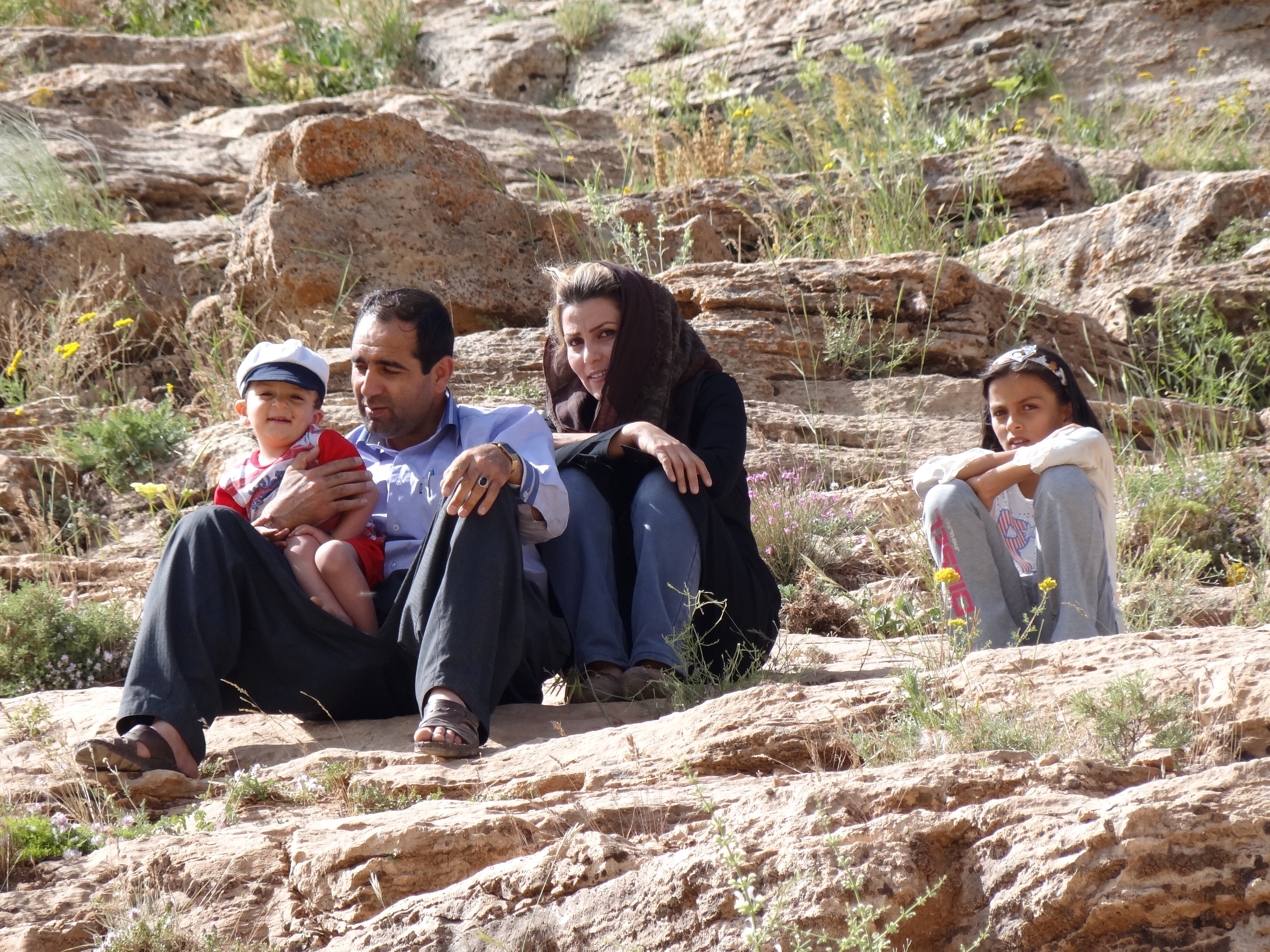 Kurdish Family atop Soleiman's Prison - Takht-e Soleiman - Western Iran